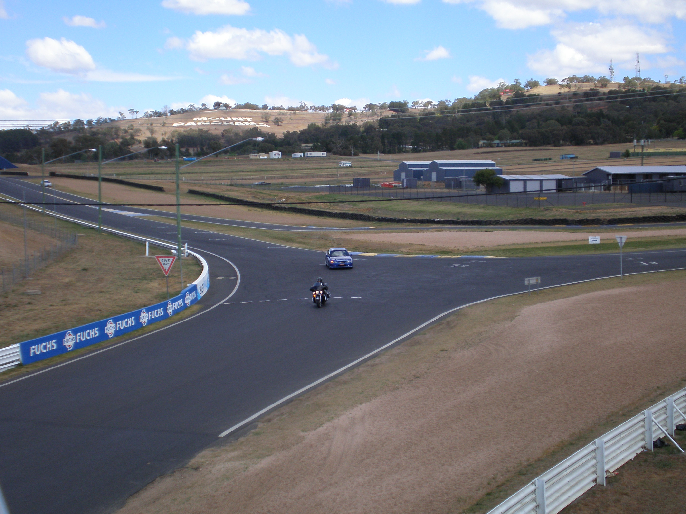 The public entrance to Mount Panorama Circuit in Bathurst. This photo was taken on a non-race day, when the circuit is open to the public. A strict speed limit of 60km/h applies on non-race days.